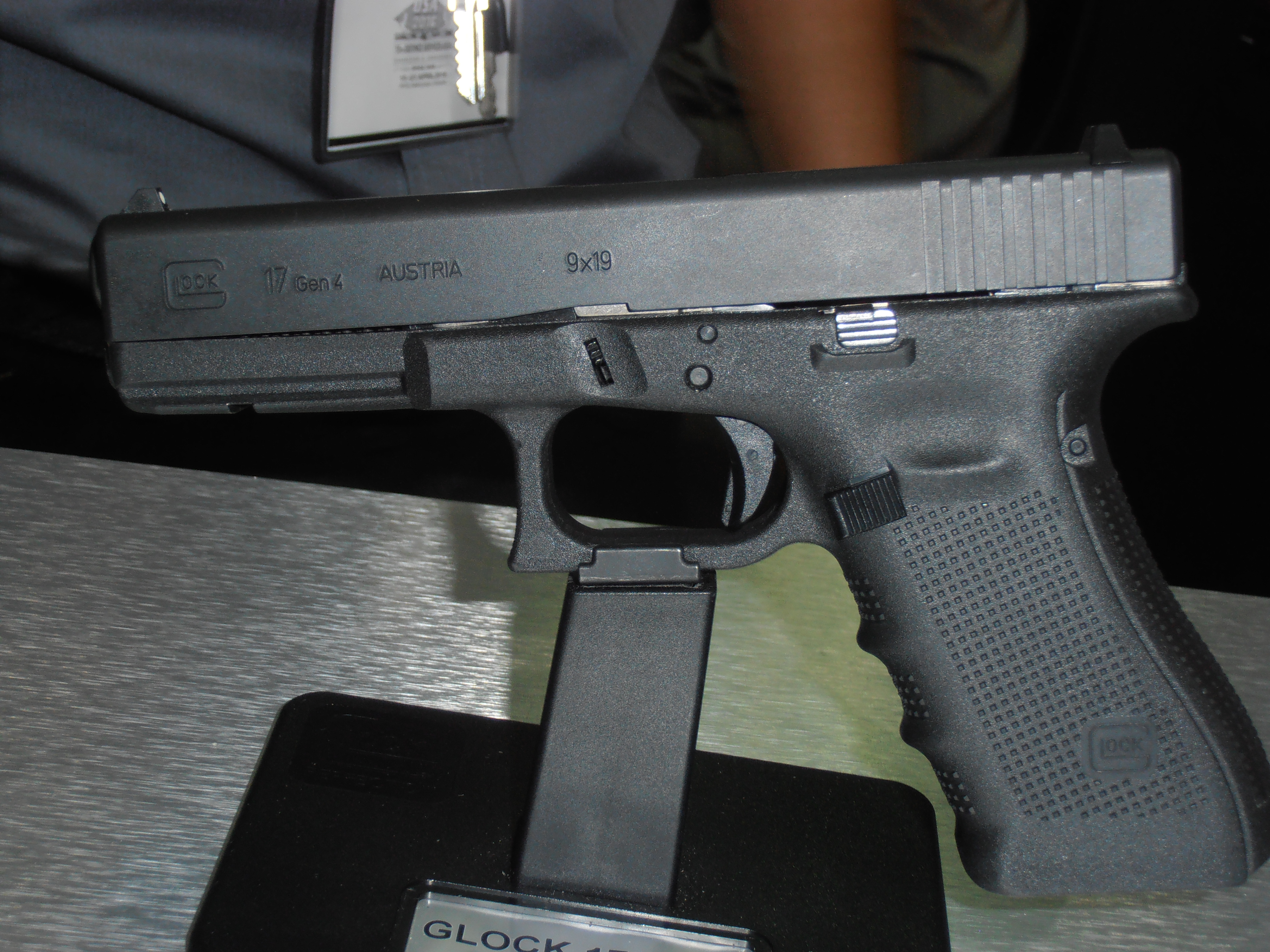 The newly era of Glock pistol called Glock Gen4